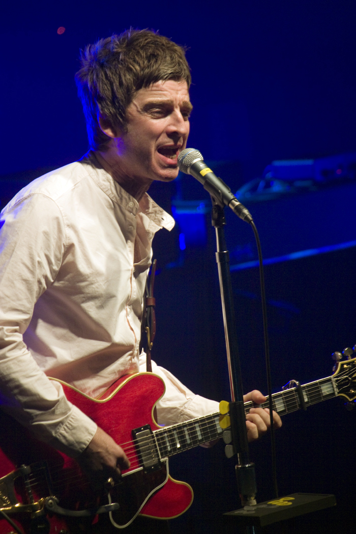 Noel Gallagher and the High Flying Birds on stage at Razzmatazz, Barcelona, Spain.